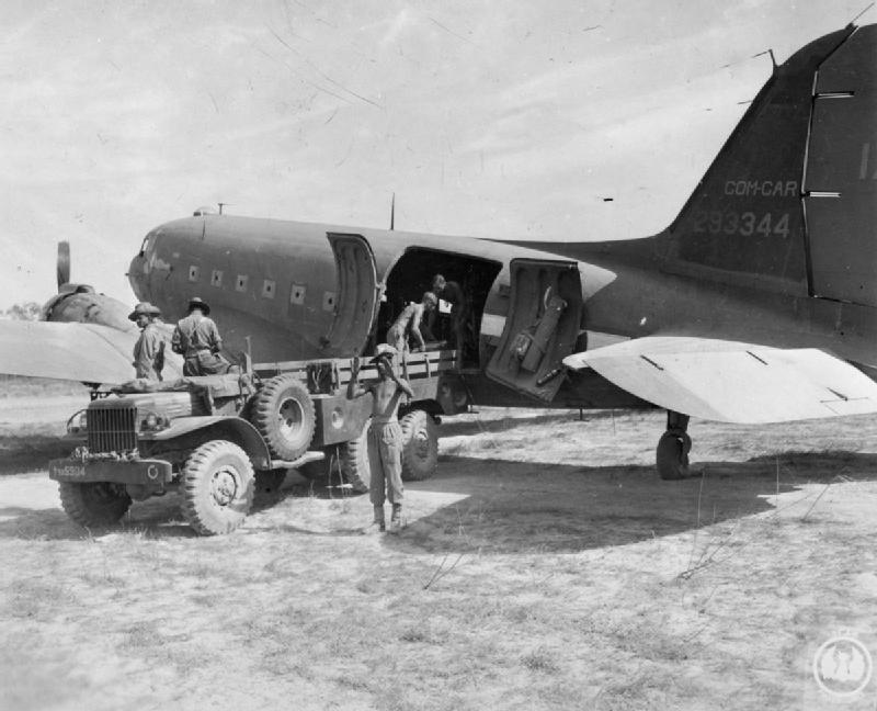 The British Army in Burma 1944 Royal Indian Army Service Corps troops unload an American C-47 cargo plane at an airstrip in the Pinwe area, 21 November 1944.